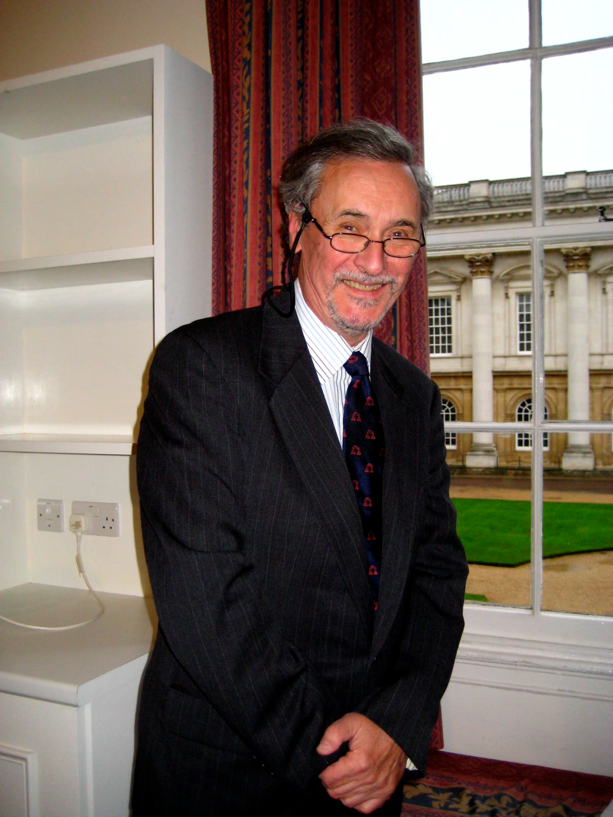 David Greetham near window